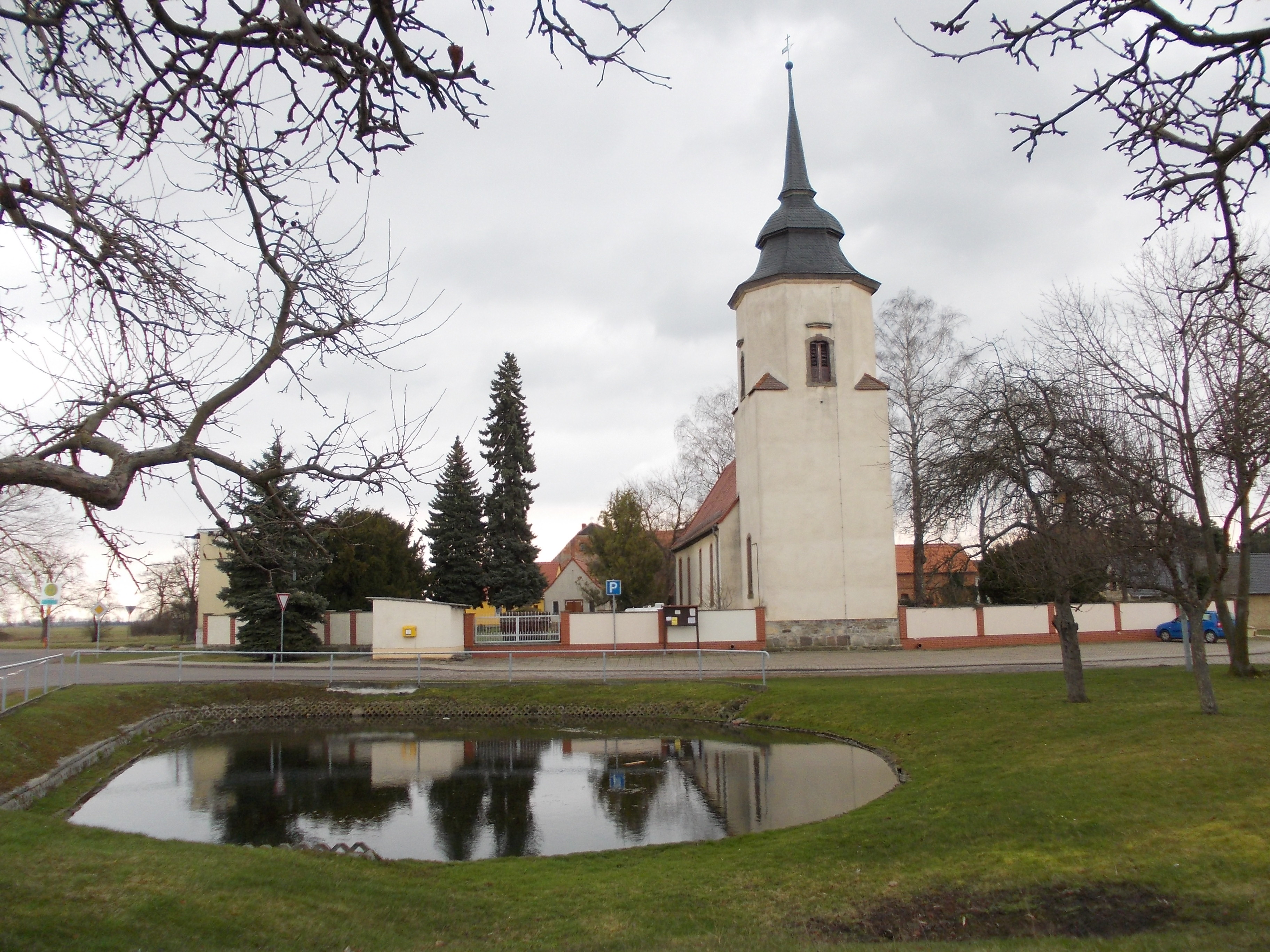 Pissen church (Leuna, district of Saalekreis, Saxony-Anhalt)